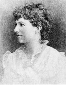 Grace King, 1887 engraved portrait